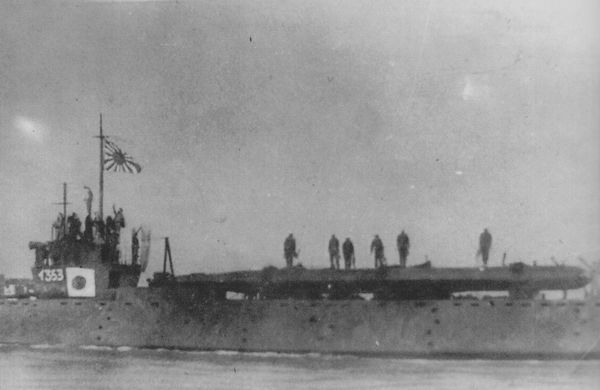 HIJMS I-363 w/ Kaiten